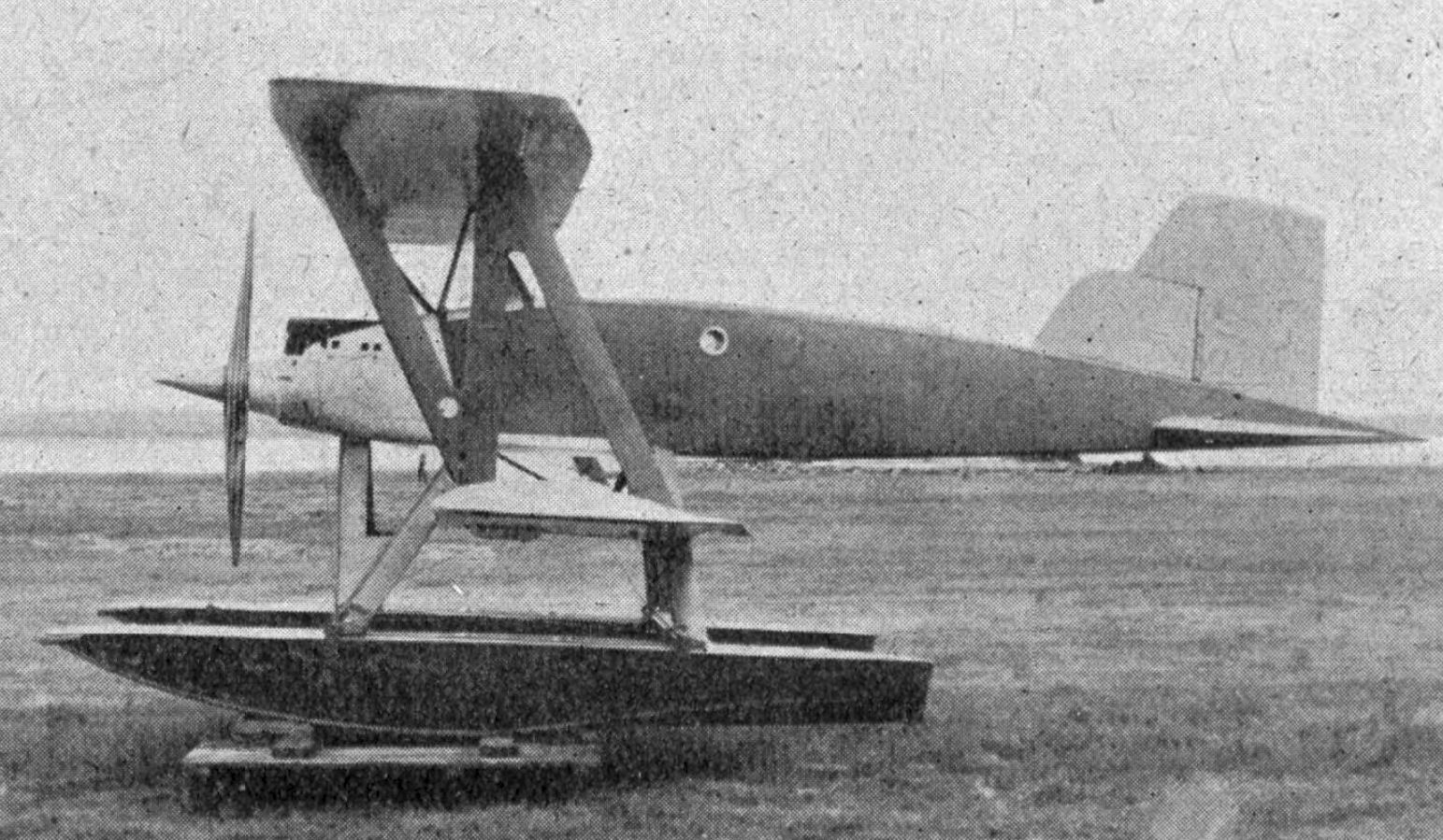 Caspar C 29 photo from L'Aéronautique September,1926